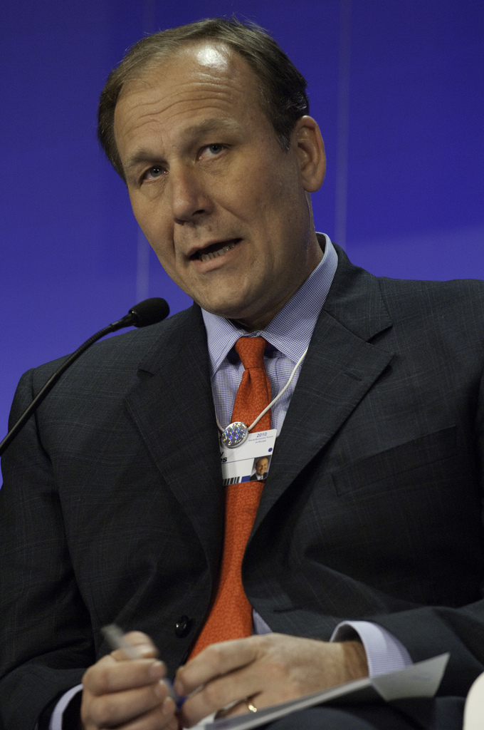 Jeffrey A. Joerres, President and Chief Executive Officer of Manpower Inc., at the World Economic Forum in Brussels on May 10, 2010.